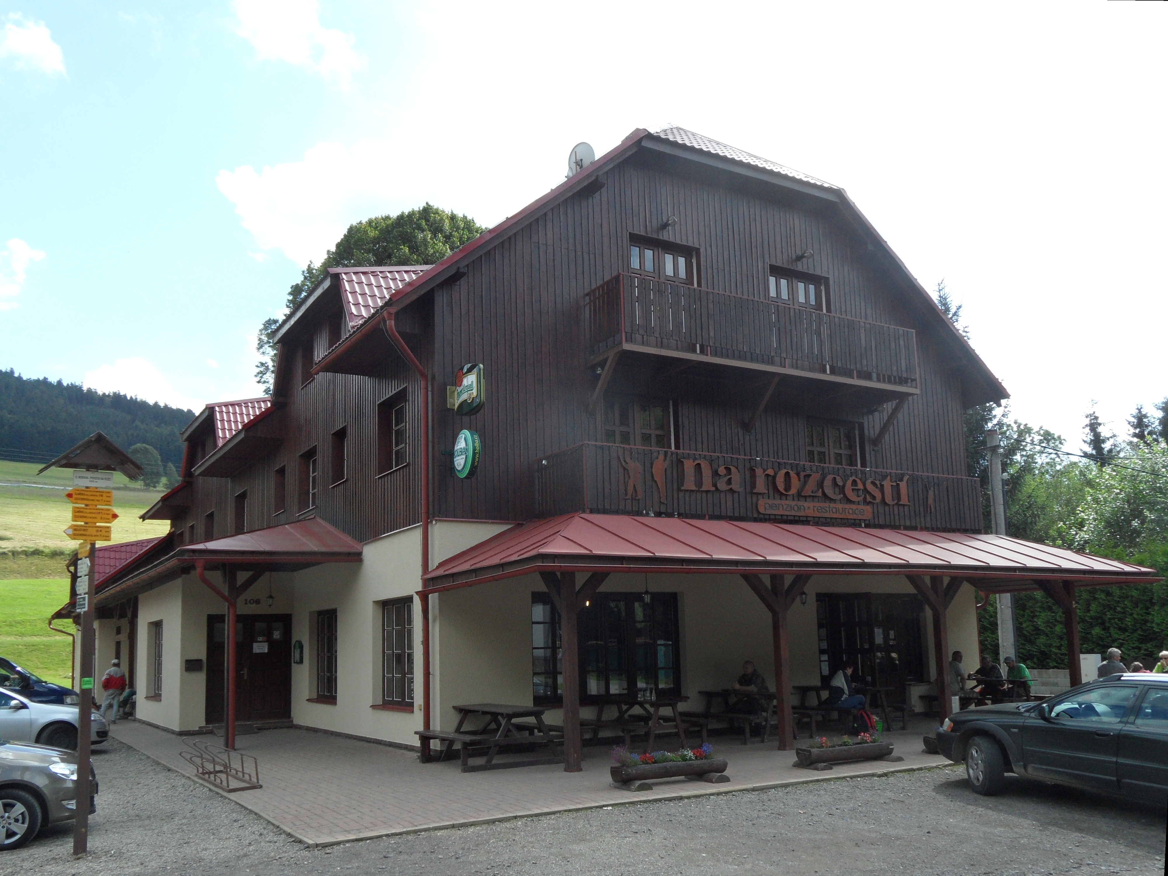 Horní Morava A. Pension Na rozcestí, Ústí nad Orlicí District, the Czech Republic.